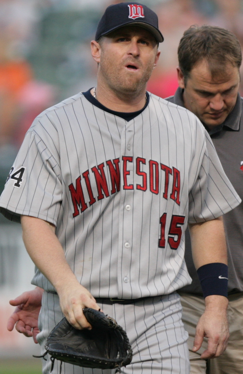 Phil Nevin (left) of the Minnesota Twins walks with an athletic trainer at Camden Yards in Baltimore in 2006